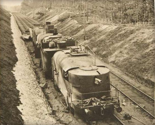 1918 Finnish Civil War: Red Guard armoured train fallen off the track by the Säiniö Station near the city of Vyborg.